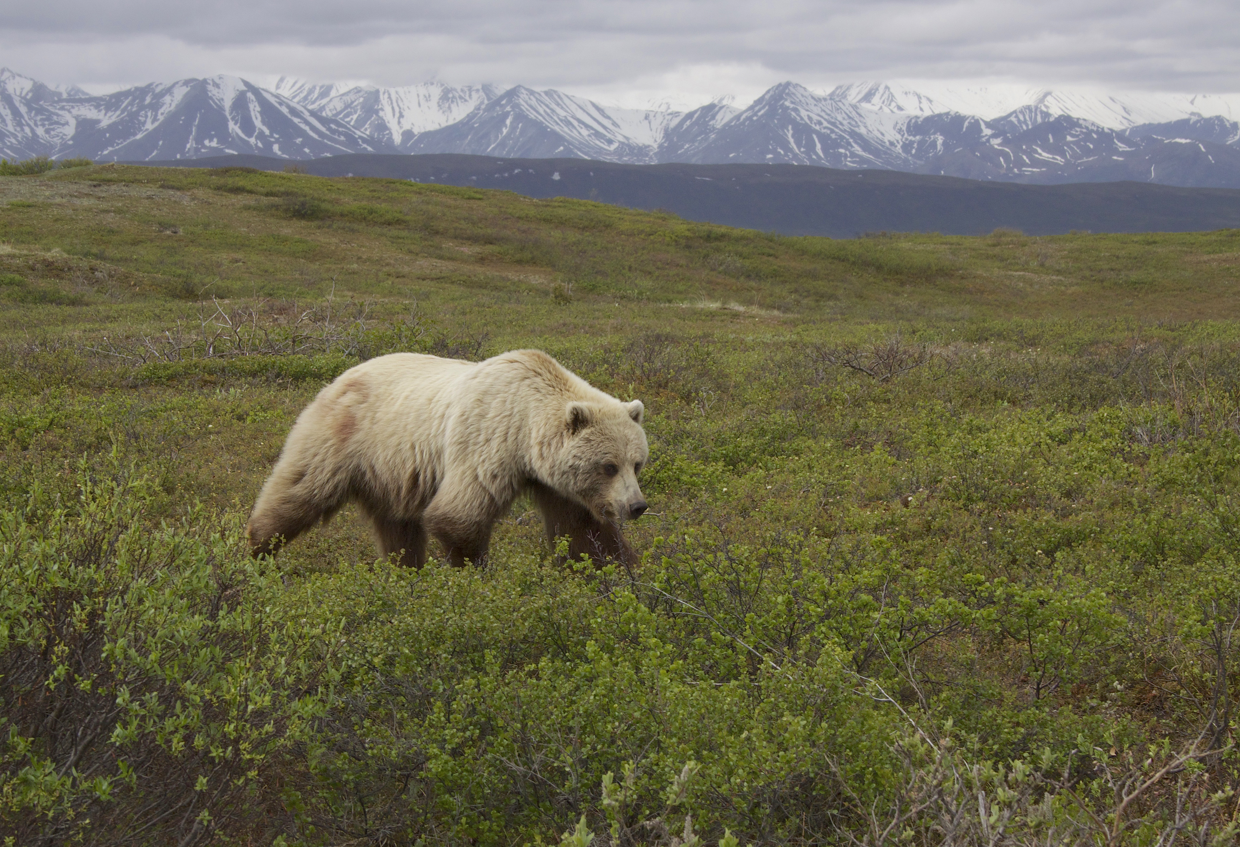 Been writing about grizz today, both are from Denali in the last year. Is either more appealing than the other?